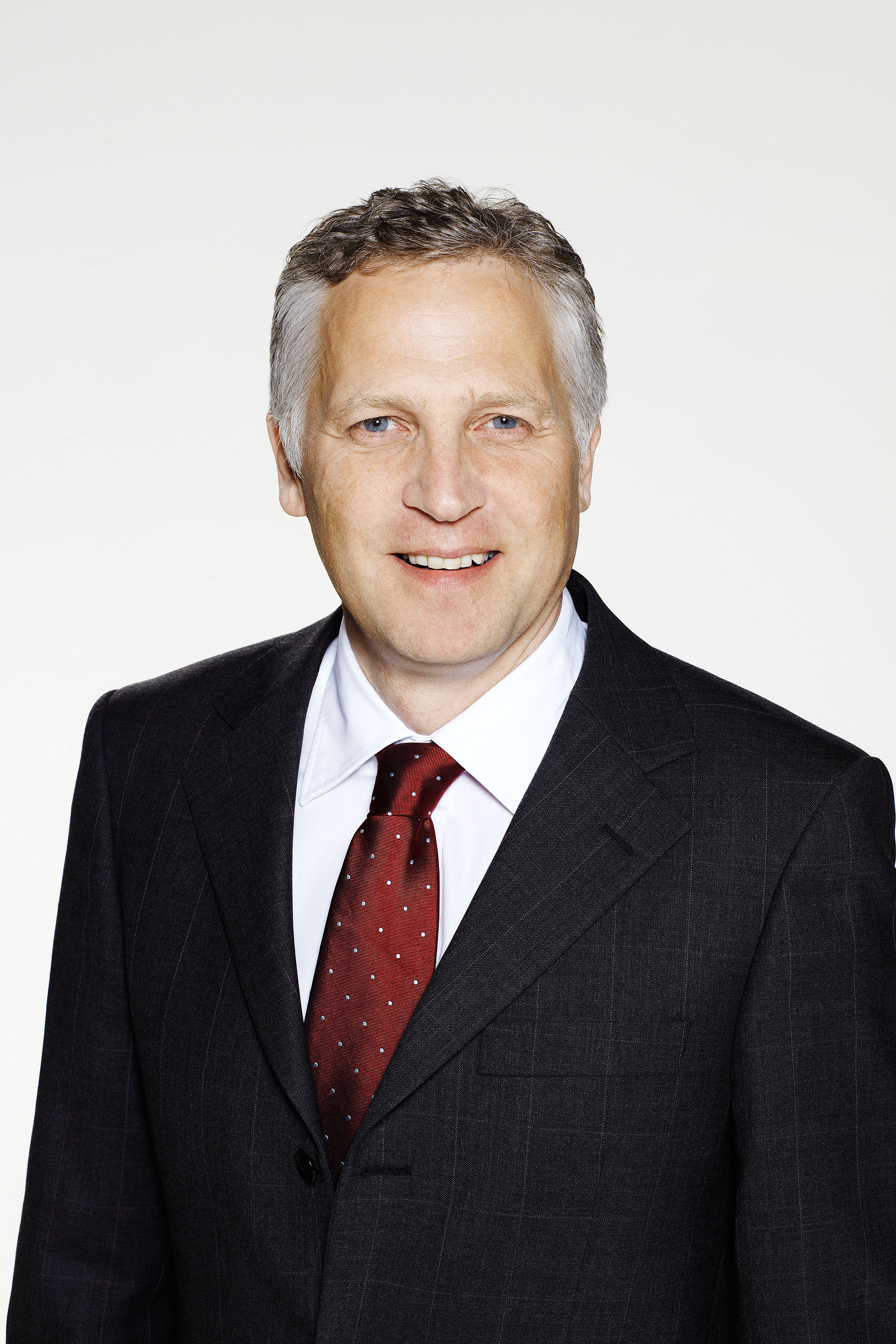 Øyvind Korsberg, FrP-politiker